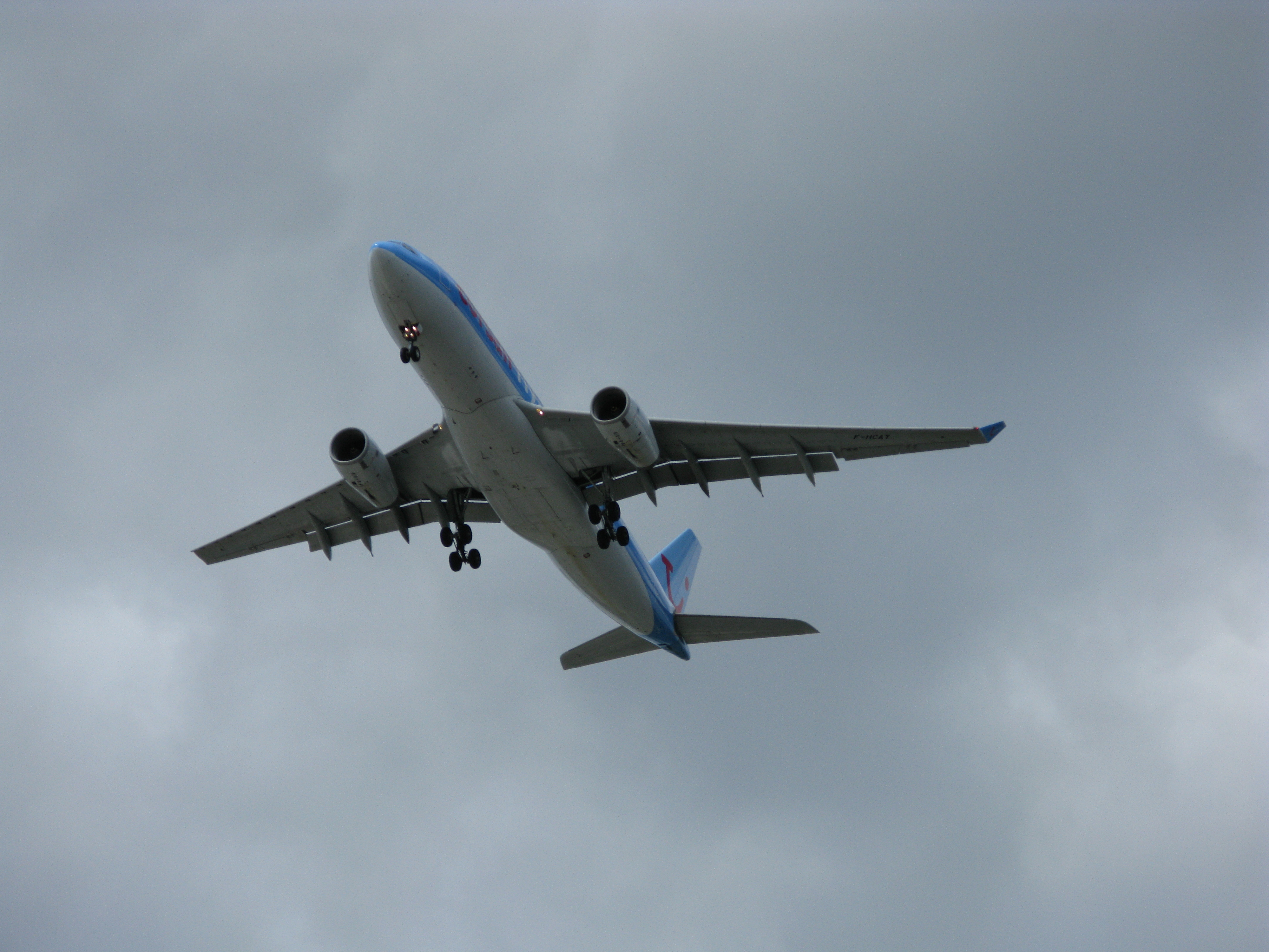 A Corsairfly Airbus A330-200 (civil registration : F-HCAT) on final for runway 24R at Montréal-Trudeau International Airport (YUL/CYUL).